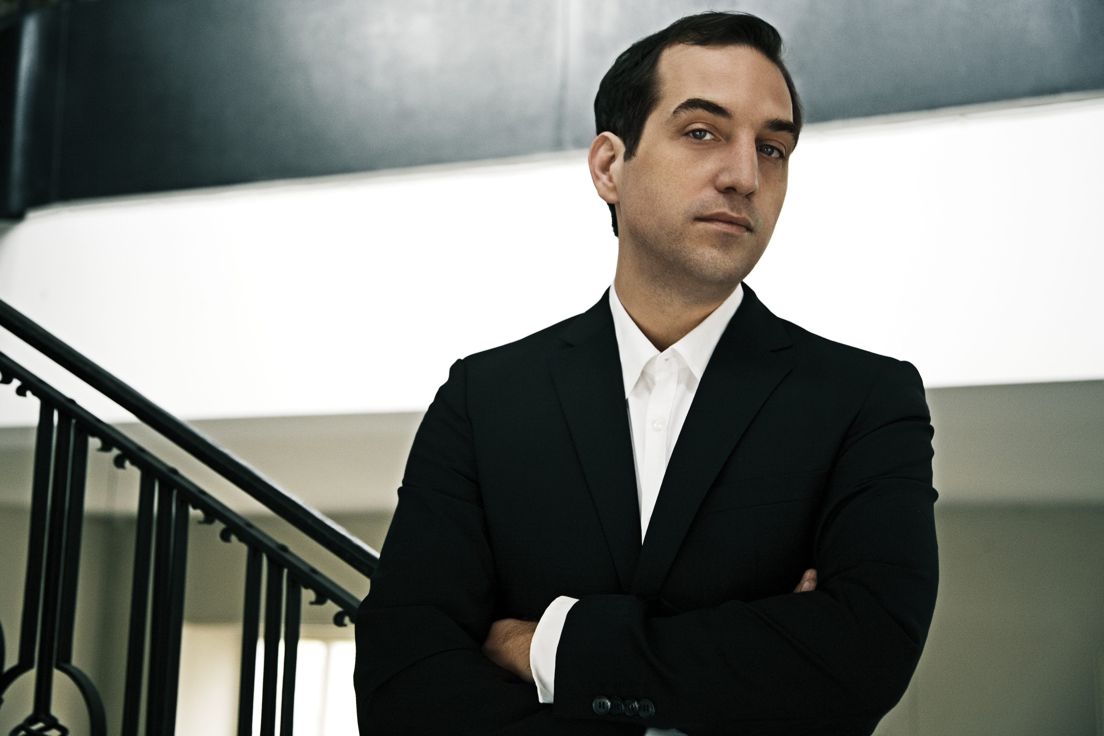 Marc Houle official press photo. Download press kit on